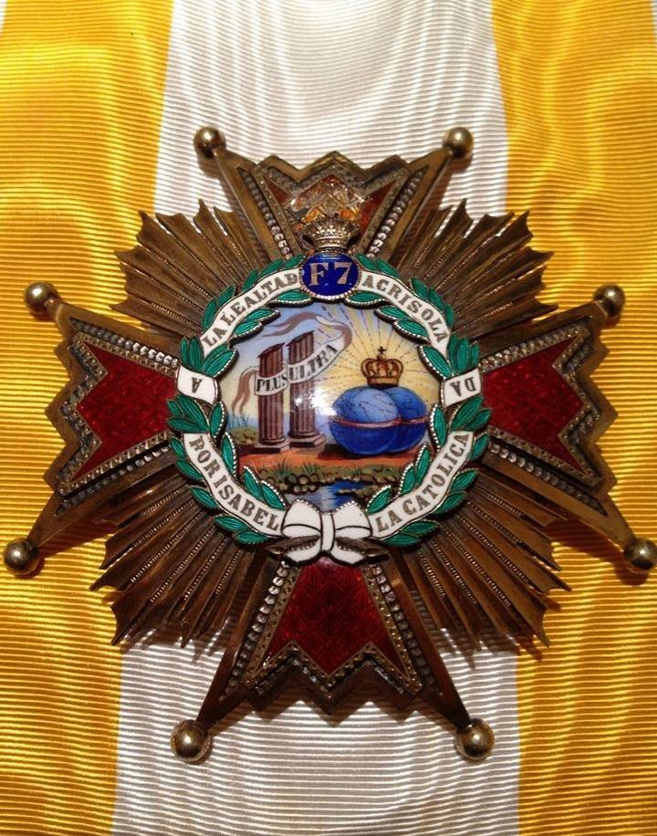 Picture taken by me (iPhone) of my Grand Cross breast star o the Order of Isabel la Católica